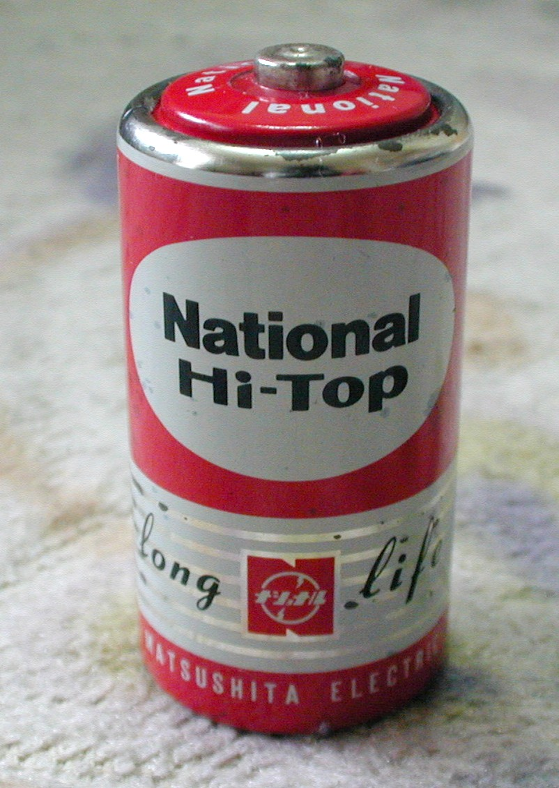 ナショナル Hi-Top乾電池National Hi-Top Dry Battery